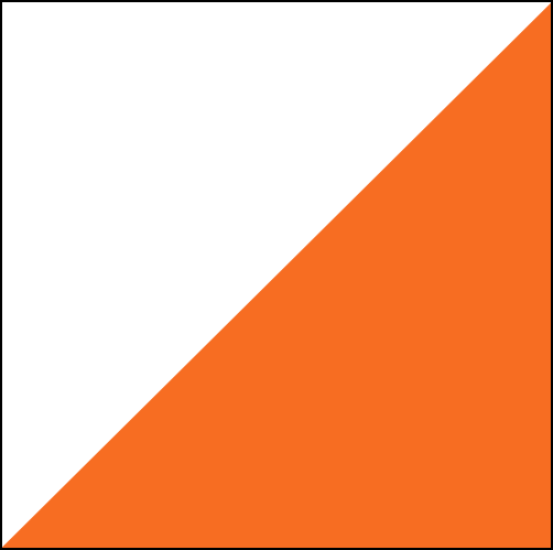 Official orienteering symbol, with black frame around it.